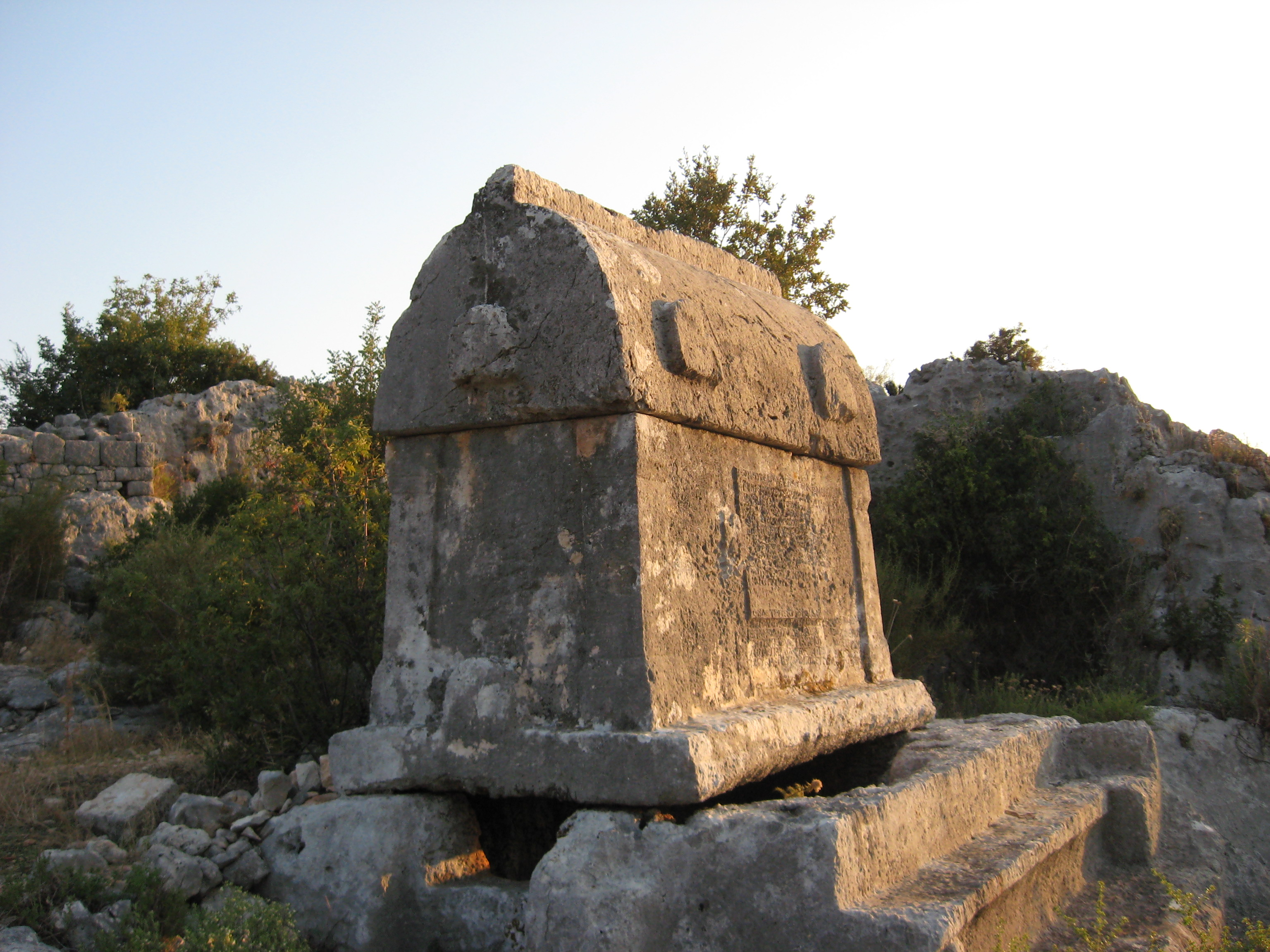 Lycian tomb near Üçağız, Turkey.